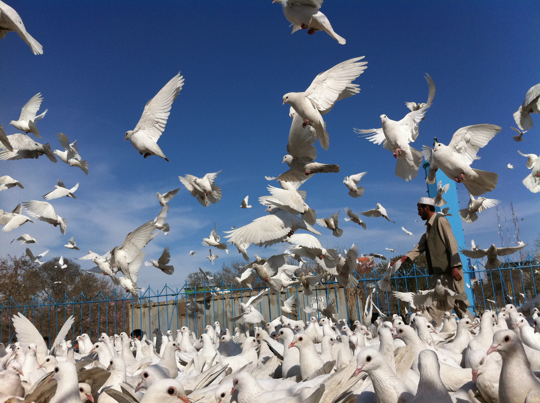 White Doves at the Blue Mosque in Mazar-e-Sharif